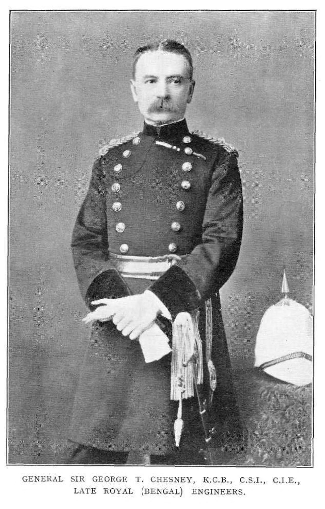 Sir George Tomkyns Chesney KCB CSI CIE (30 April 1830 – 31 March 1895)